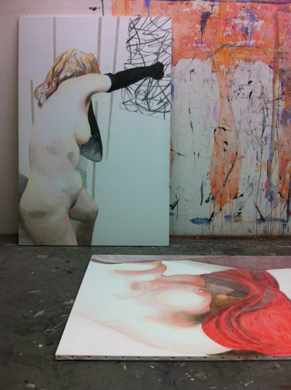 The works Autoportrait (into abstraction) #1 (2012) and Autoportrait (into abstraction) #2 (2013) by Agnès Thurnauer